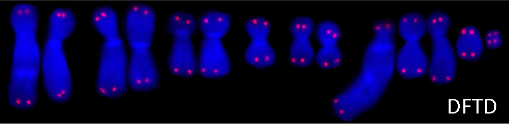 Karyotype of devil facial tumour disease (DFTD) Tasmanian devil (Sarcophilus Harrisii).